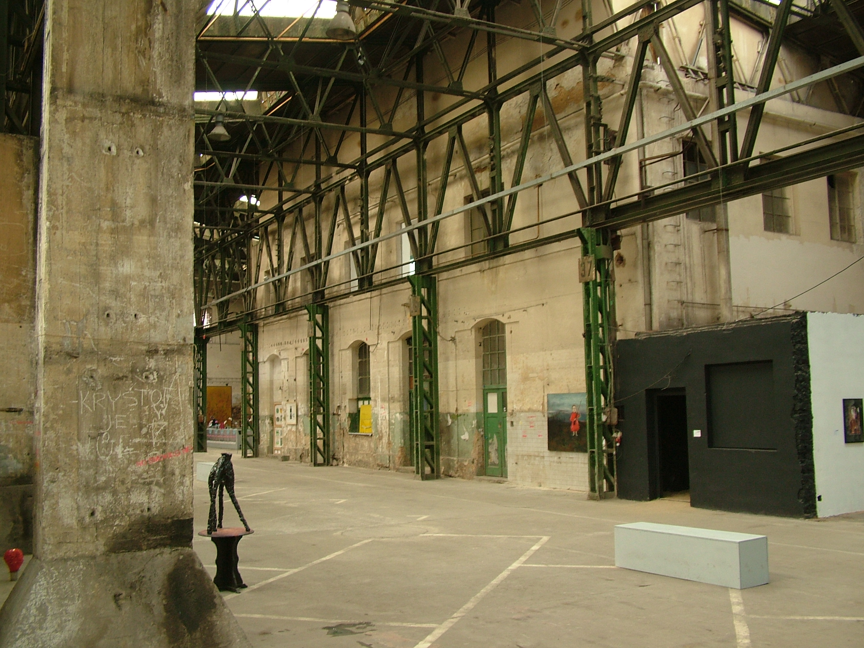 Photo_Bienale_Praha 2009 Prague, Karlín